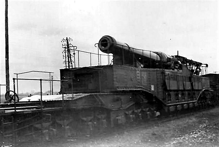 370 mm modele 1875/79 railway gun